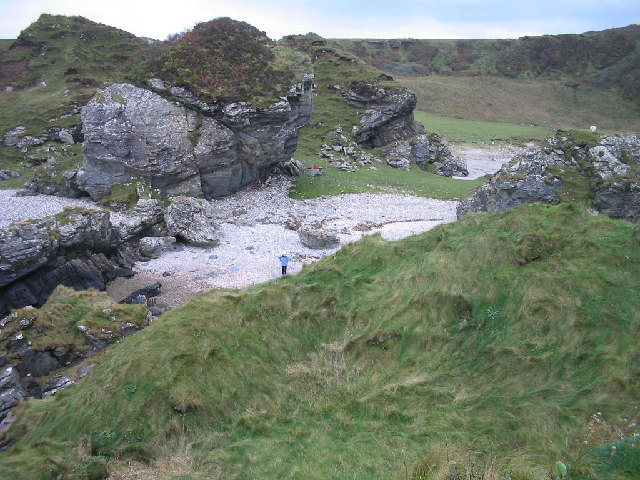 Dun a'Chail Iron Age Fort. At Port Alsaig. This small enclosure in the foreground is on the top of a rocky islet in the bay, accessible at low tide across stepping stones and then a short scramble.